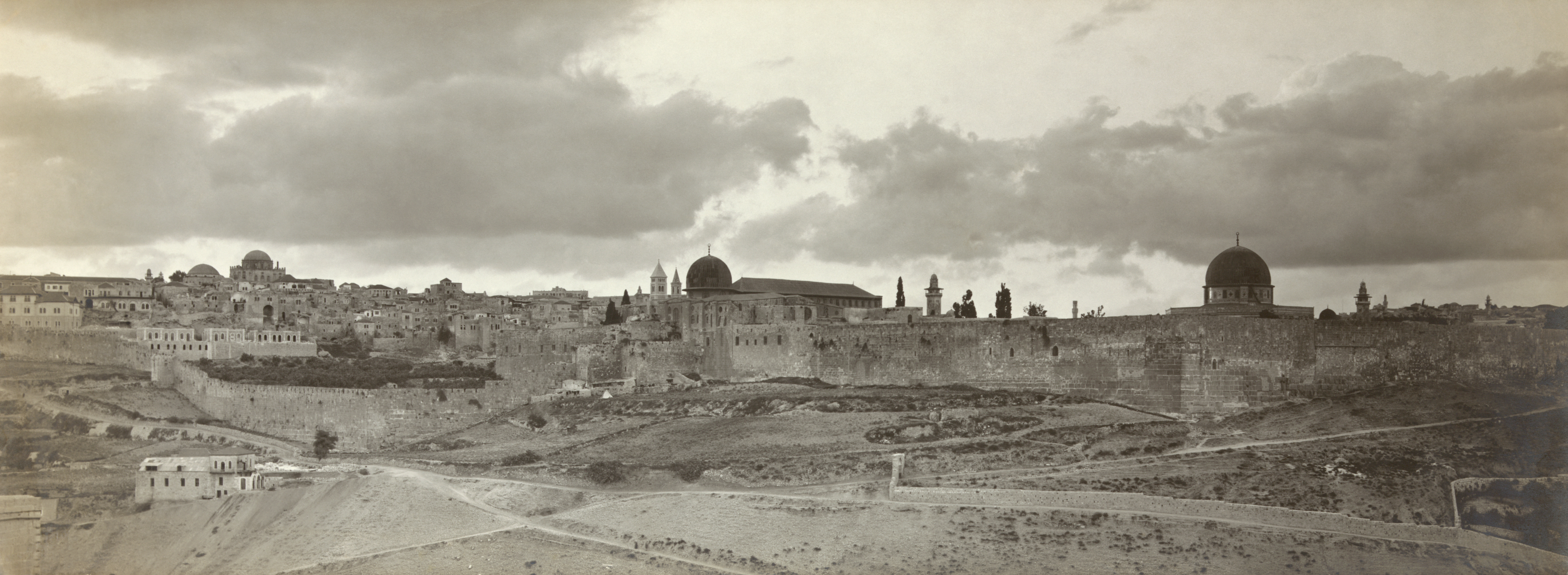 View of Jerusalem from southeast, showing city walls, the Dome of the Rock, and al-Aqsa mosque.